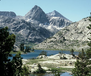 Mount Spencer and Evolution Lake — in the Evolution Peaks region of the central Sierra Nevada, in Kings Canyon National Park. Within Fresno County, California. (cropped from source file)